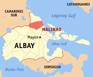 Locator map of Malinao in Albay, Philippines.